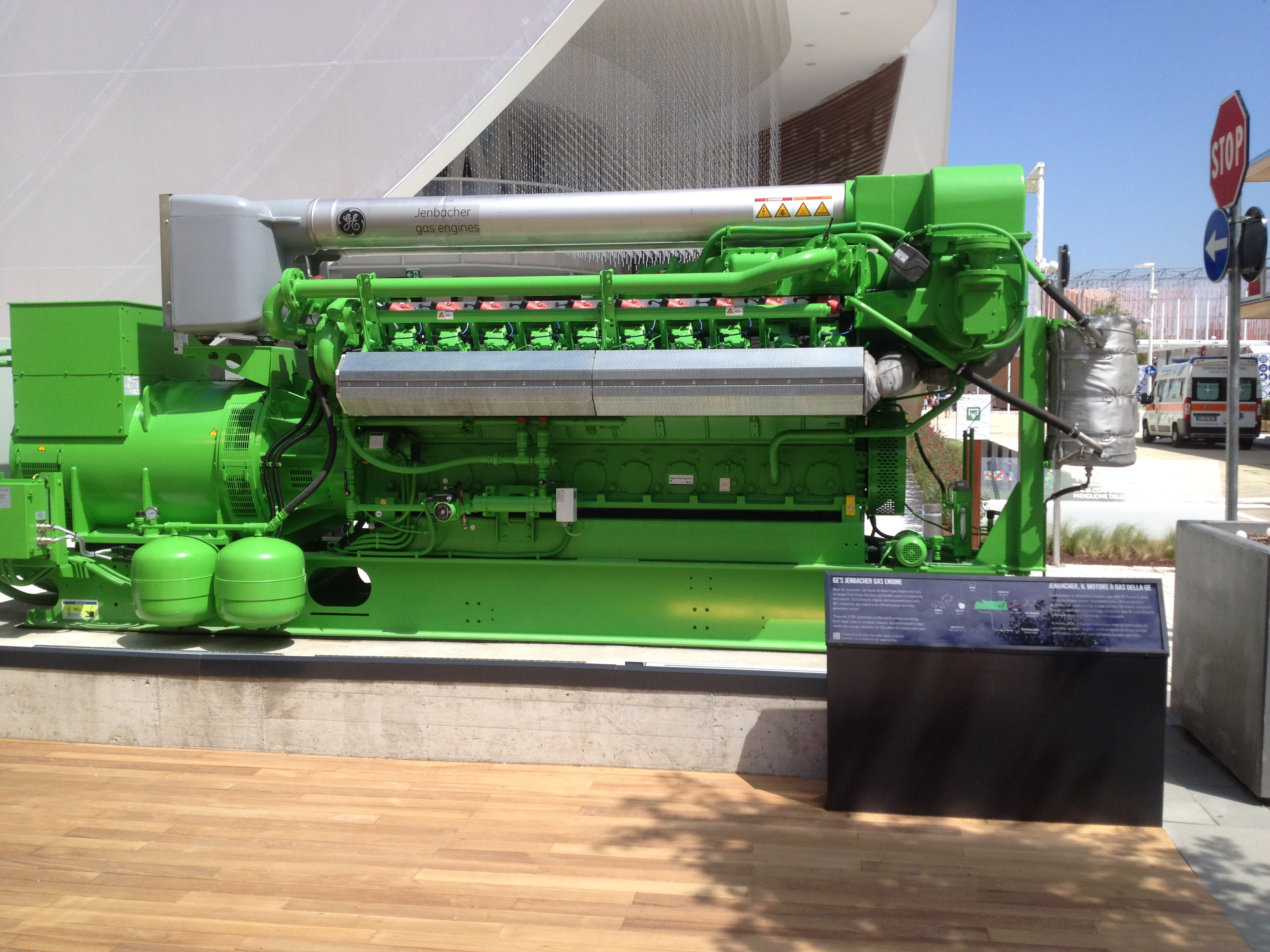 GE's Jenbacher gas engine, USA Pavilion, Expo 2015, Milan, Italy.